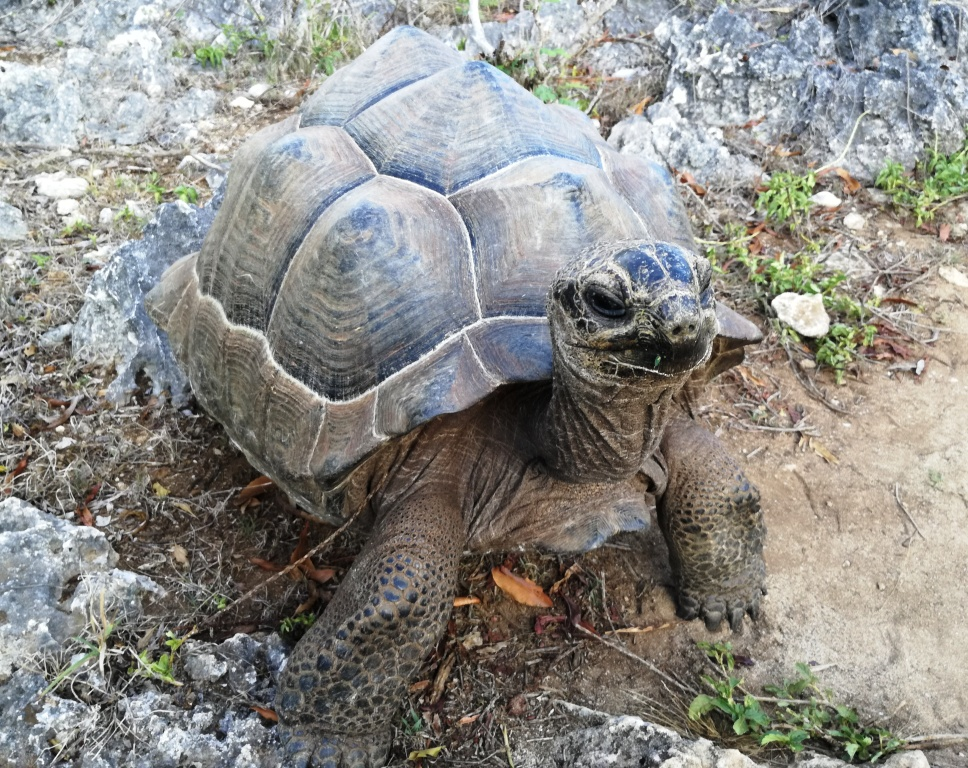 A very sociable giant tortoise at Francois Leguat park Rodrigues